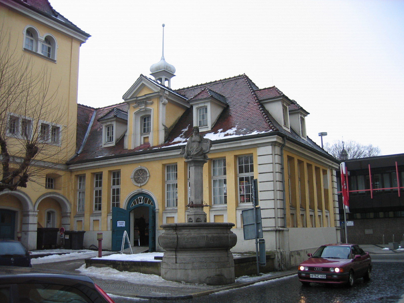 in Herford, District of Herford, North Rhine-Westphalia, Germany.